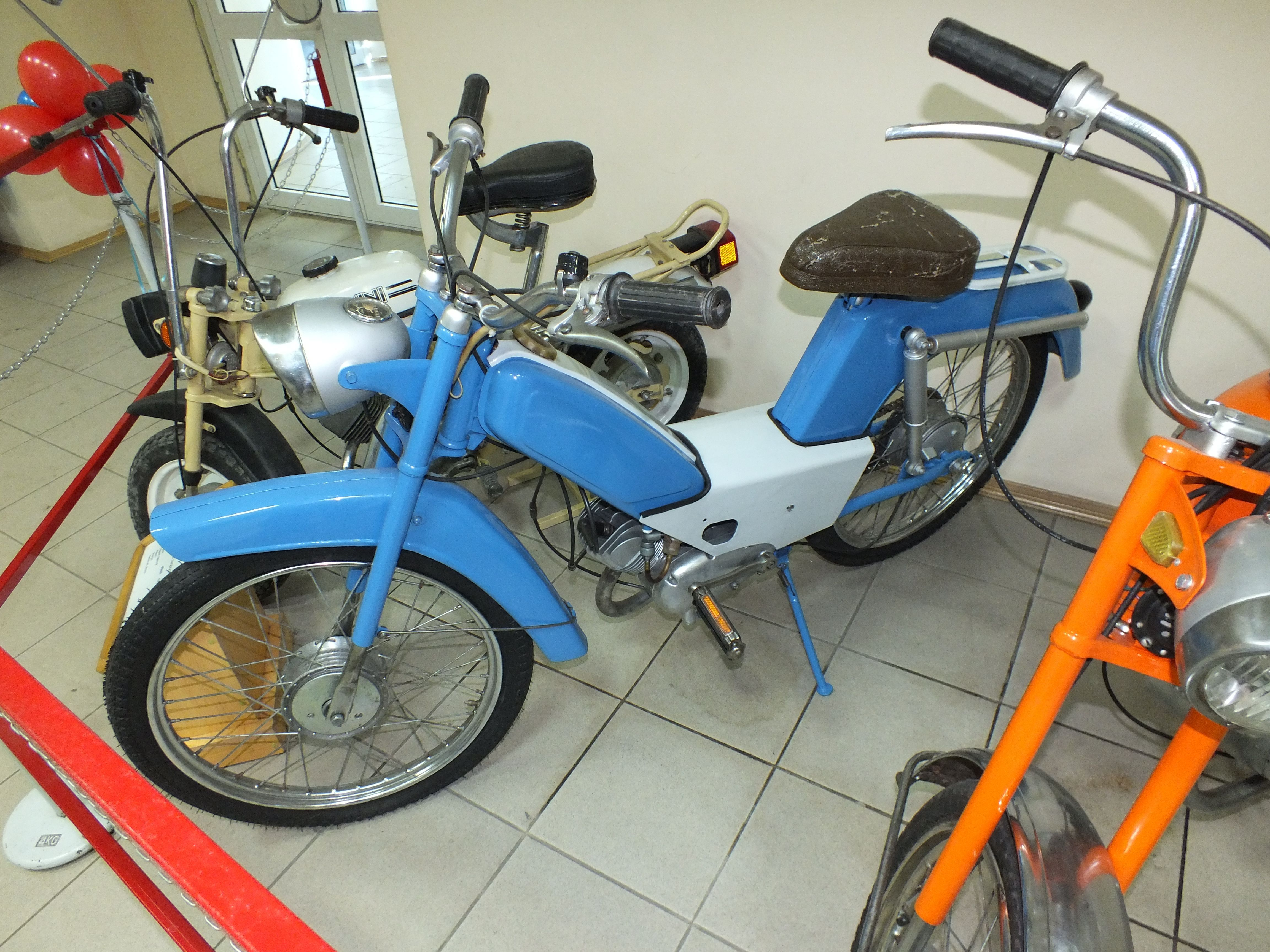 Motorcycles of Russia